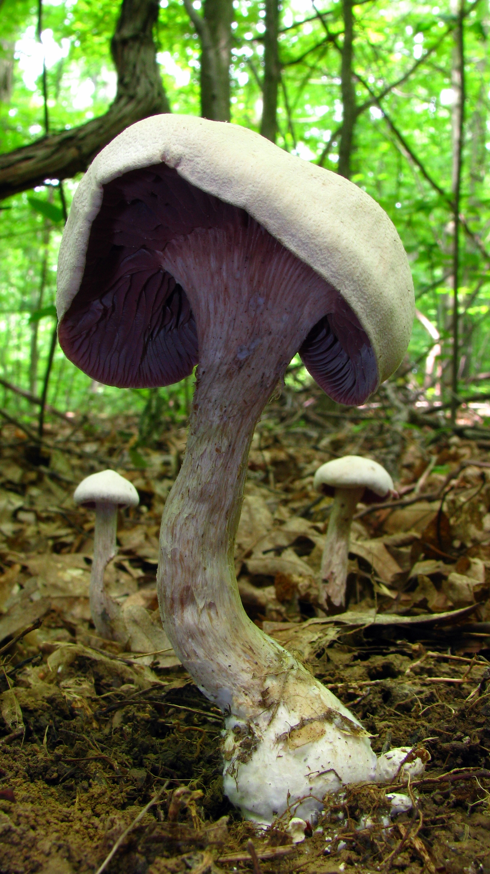 Laccaria ochropurpurea ((Berk.) Peck) Location: Wayne National Forest, Athens Co., Ohio, USA